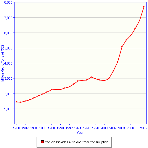 China CO2 emission per millions of metric tons from 1980 to 2009.